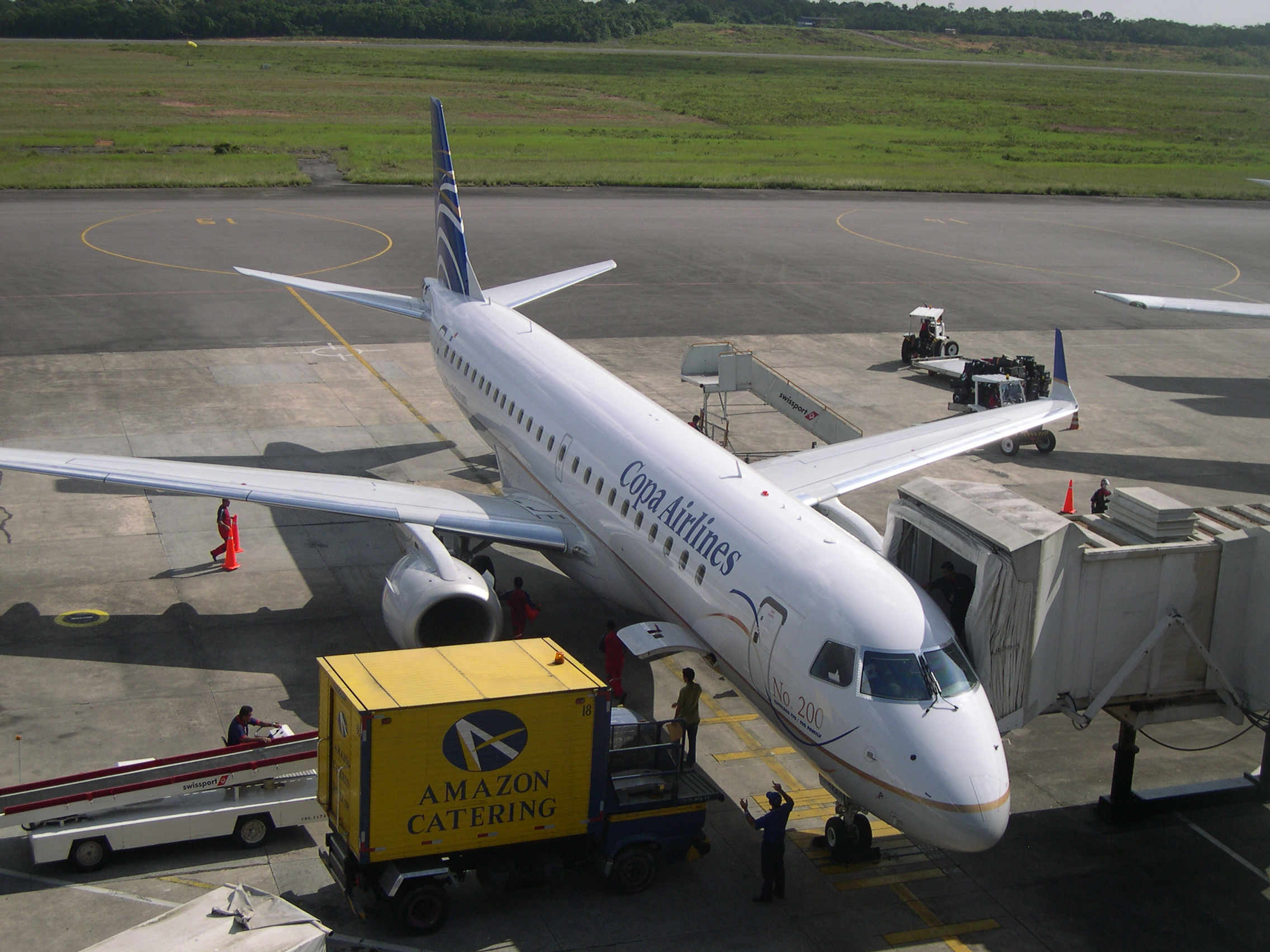 Copa Airlines E-190 No. 200 in Manaus